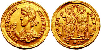 Valentinianus II. AD 375-392. AV Solidus (4.47 g). Mediolanum (Milan) mint. Struck January 390 AD. D N VALENTINI-ANVS P F AVG, consular bust left, wearing pearl-diadem and draped in imperial mantle, holding mappa and sceptre VOTA PV-BLICA, Valentinian and Theodosius seated facing, both nimbate and each holding a mappa and sceptre; M-D/COM. EF. Rare. RIC IX 9; Depeyrot 10/1; cf. Cohen 63. From the William H. Williams Collection. Ex Freeman and Sear Fixed Price List 6 (Summer 2001), lot F173; Leu 22 (8-9 May 1979), lot 400; Münzen und Medaillen 35 (16-17 June 1967), lot 176.